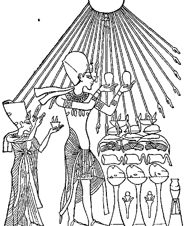 An illustration from the Encyclopaedia Biblica, a 1903 publication which is now in the public domain. Fig. 12 for article "Egypt". Image of Akhnaten and his family worshipping God (in the form of the Aten - the disc of the Sun). Note how the sun's rays end in hands.